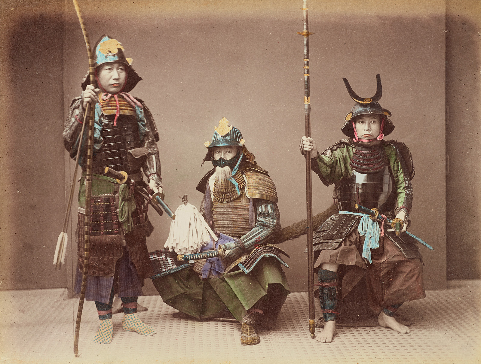 Samurai in Armour, hand-coloured albumen silver print by Kusakabe Kimbei. Empire of Japan. The person on the left has a yumi (Japanese bow), the one in the center has a katana and the one on the right carries a yari (straight-headed spear).